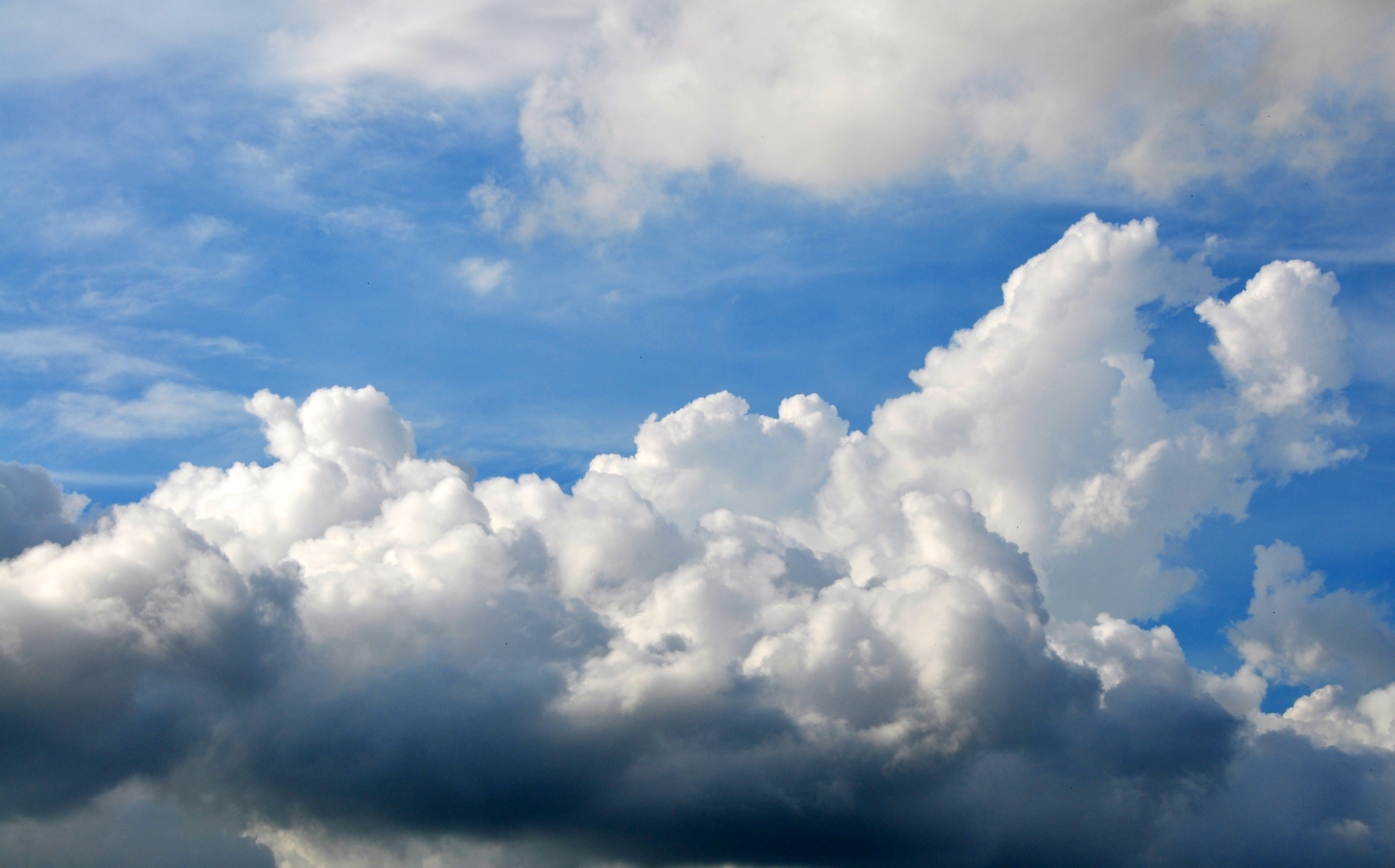 In the sky stands tall and erect the cumulus congestus, is belongs to the vertical altitude the clouds one kind.